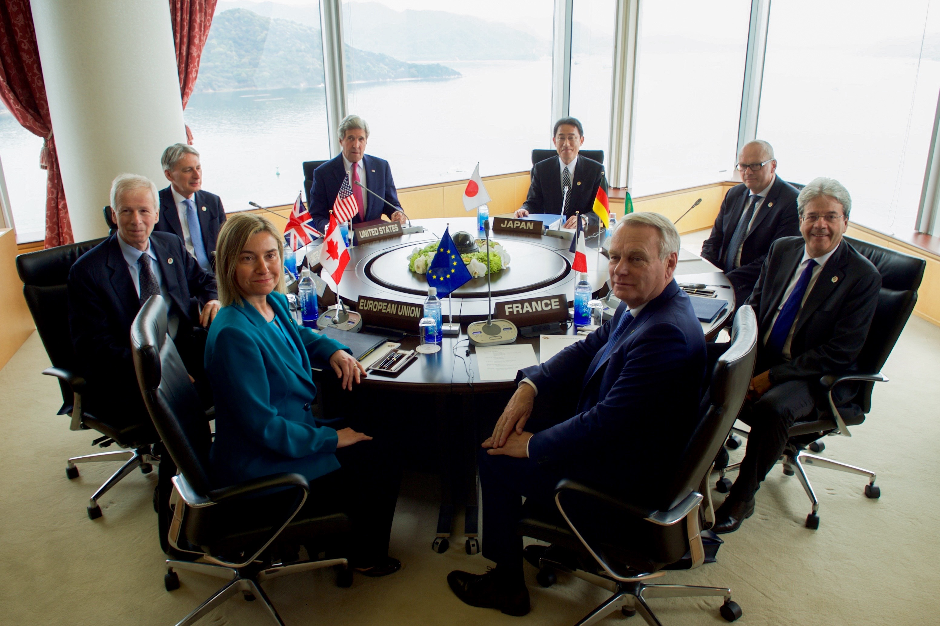 U.S. Secretary of State John Kerry sits with his colleagues from Canada, the European Union, France, Germany, Italy, Japan, and the United Kingdom on April 10, 2016, at the Grand Prince Hotel in Hiroshima, Japan, before they began the first working session of the G-7 Ministerial Meeting. [State Department Photo/Public Domain]